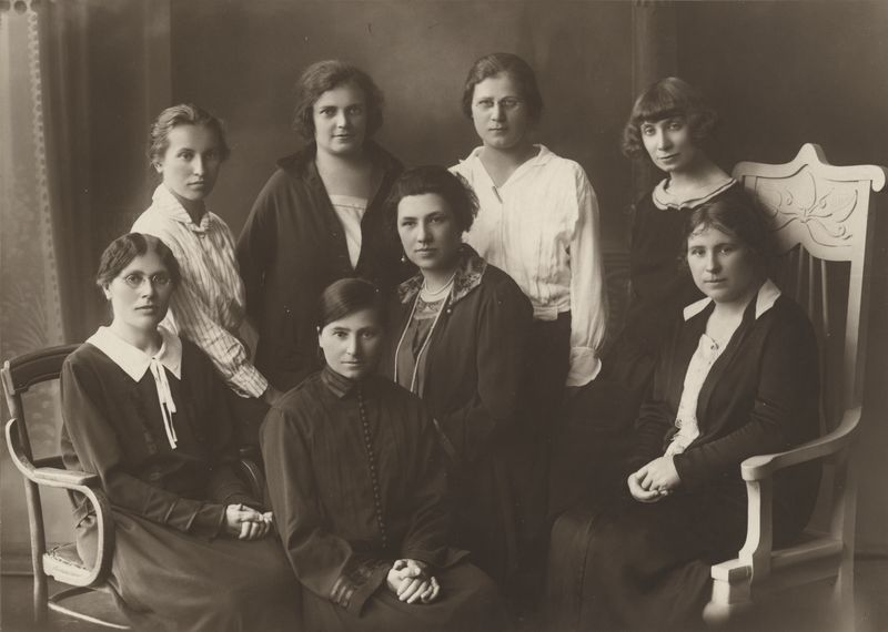 Central committee of the Lithuanian Catholic Women's Organization (Lietuvių katalikių moterų draugija). In the center: Magdalena Galdikienė née Draugelytė